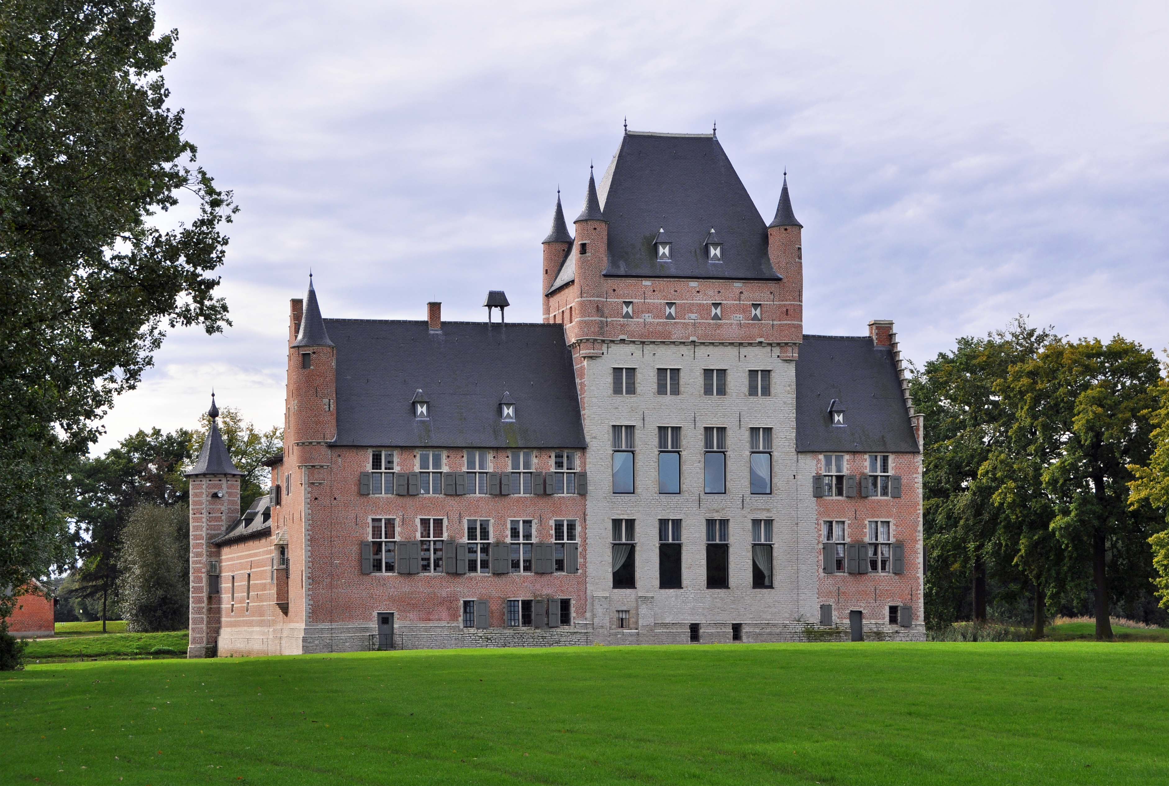 Ranst (Province of Antwerp, Belgium): Bossenstein Castle